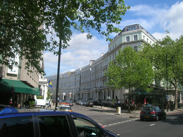 Lexham Gardens W8 From the junction with Cromwell Road SW5